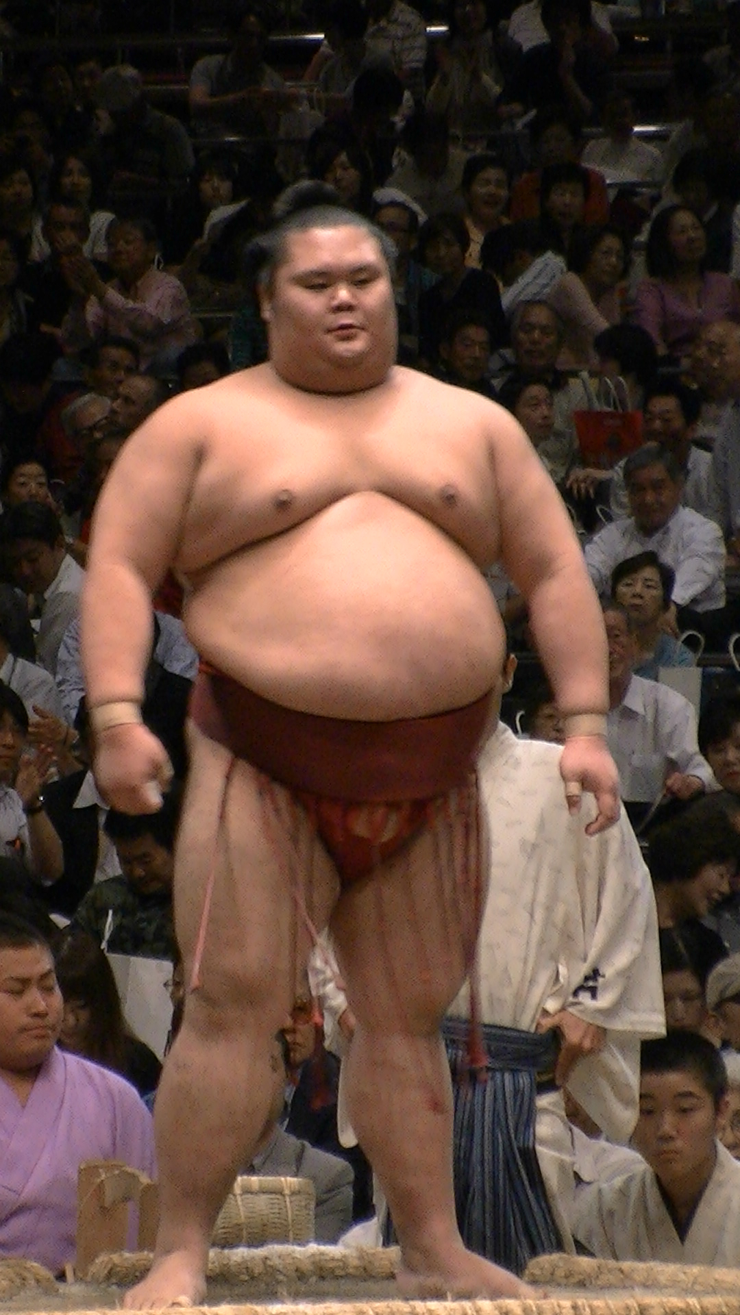 Taken at Sept 2014 tournament